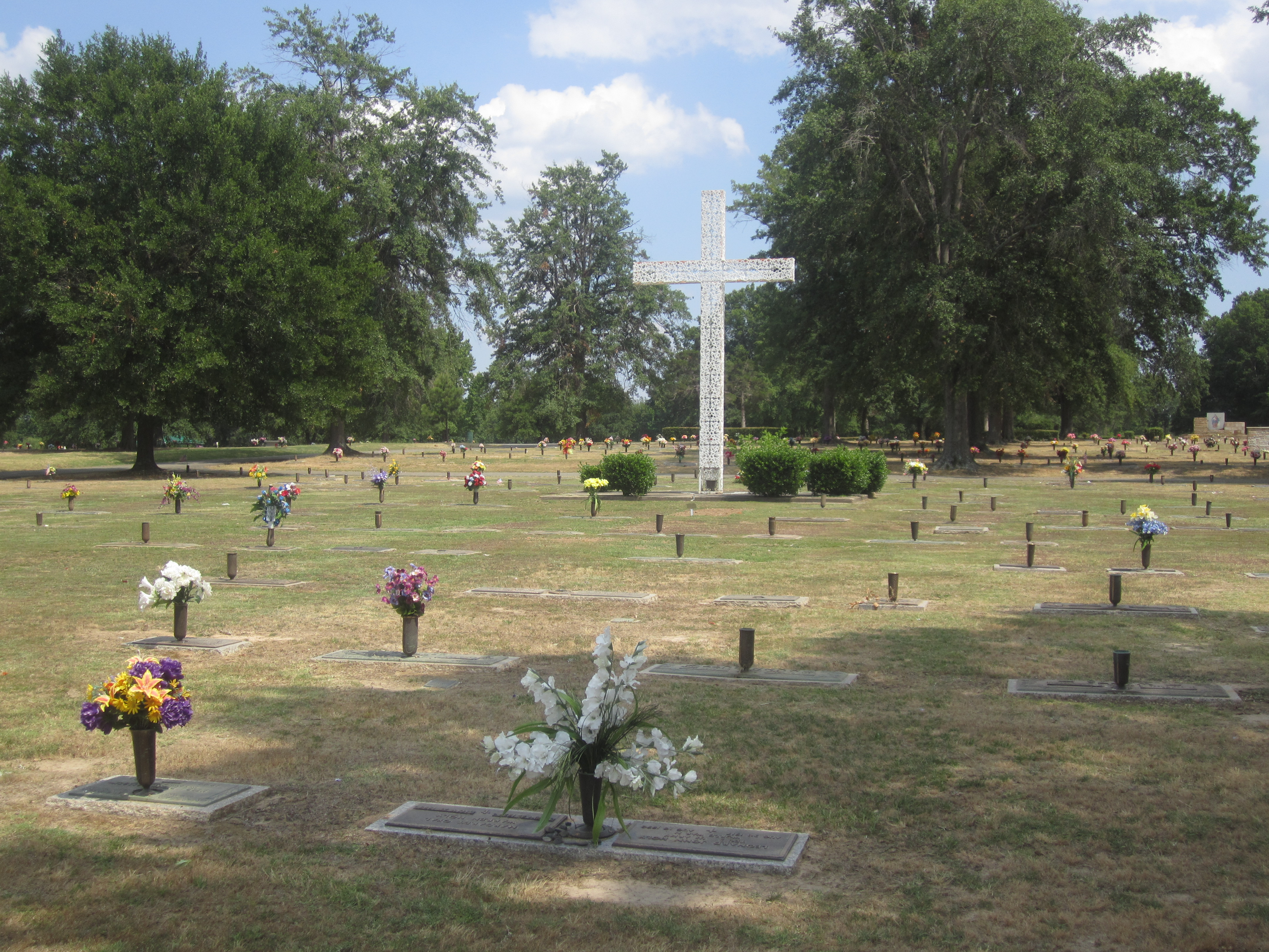 I took photo of East Memorial Gardens overview, Miller County, AR, on June 9, 2012, with Canon camera.Billy Hathorn (talk) 01:16, 29 June 2012 (UTC)